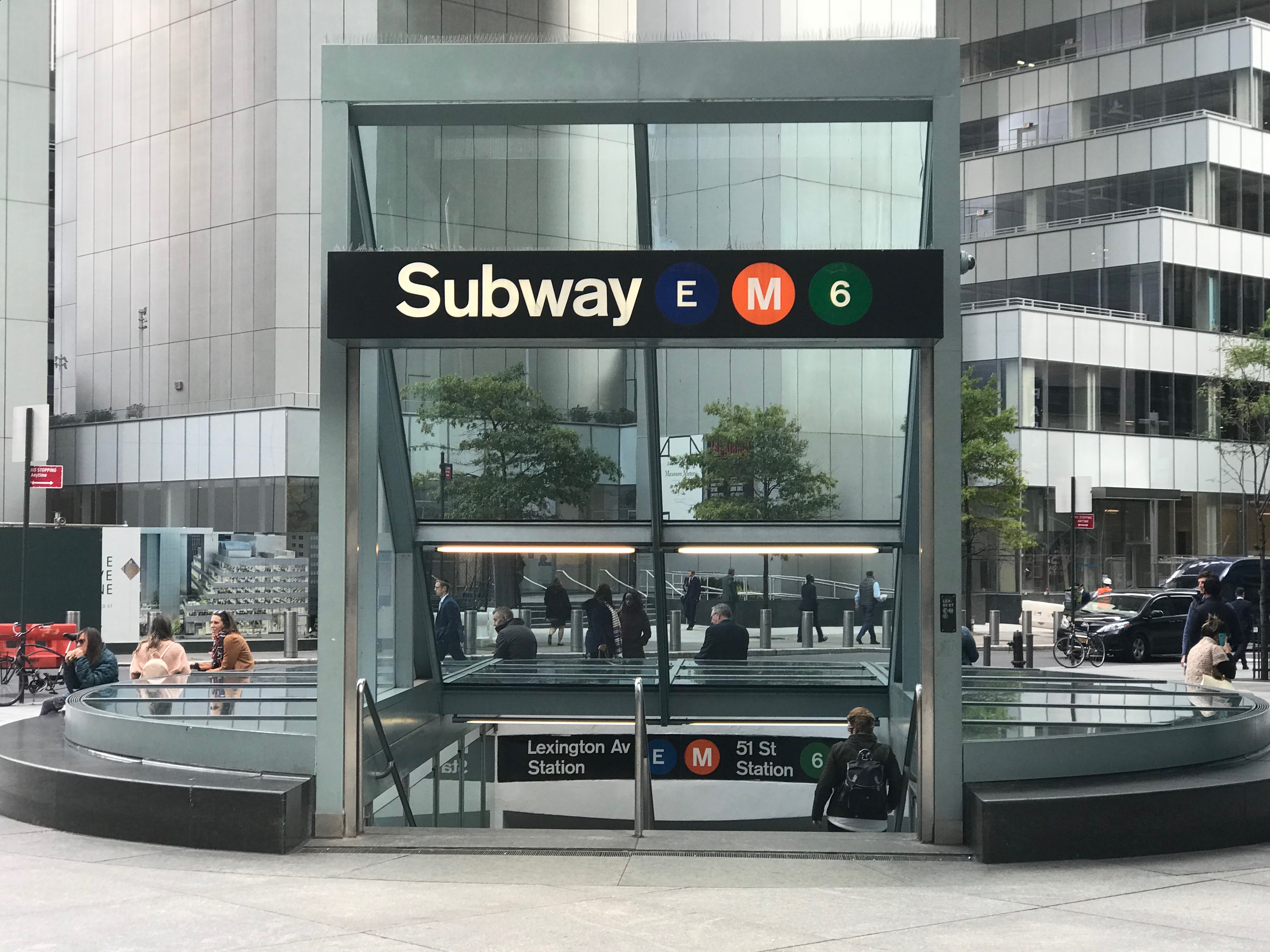 Entrance to the station at the Lexington Avenue and 53rd Street plaza.